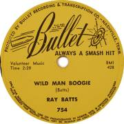 Wild Man Boogie by Ray Batts, Bullet Records 1953.